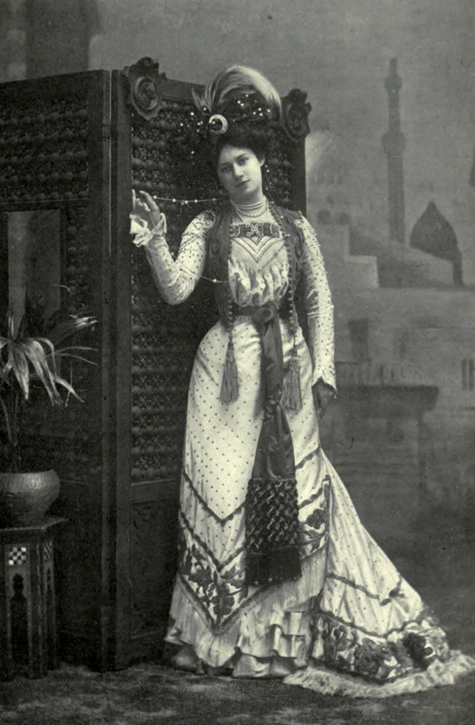 Rose Boote (1878–1958), Fourth Marchioness of Headfort